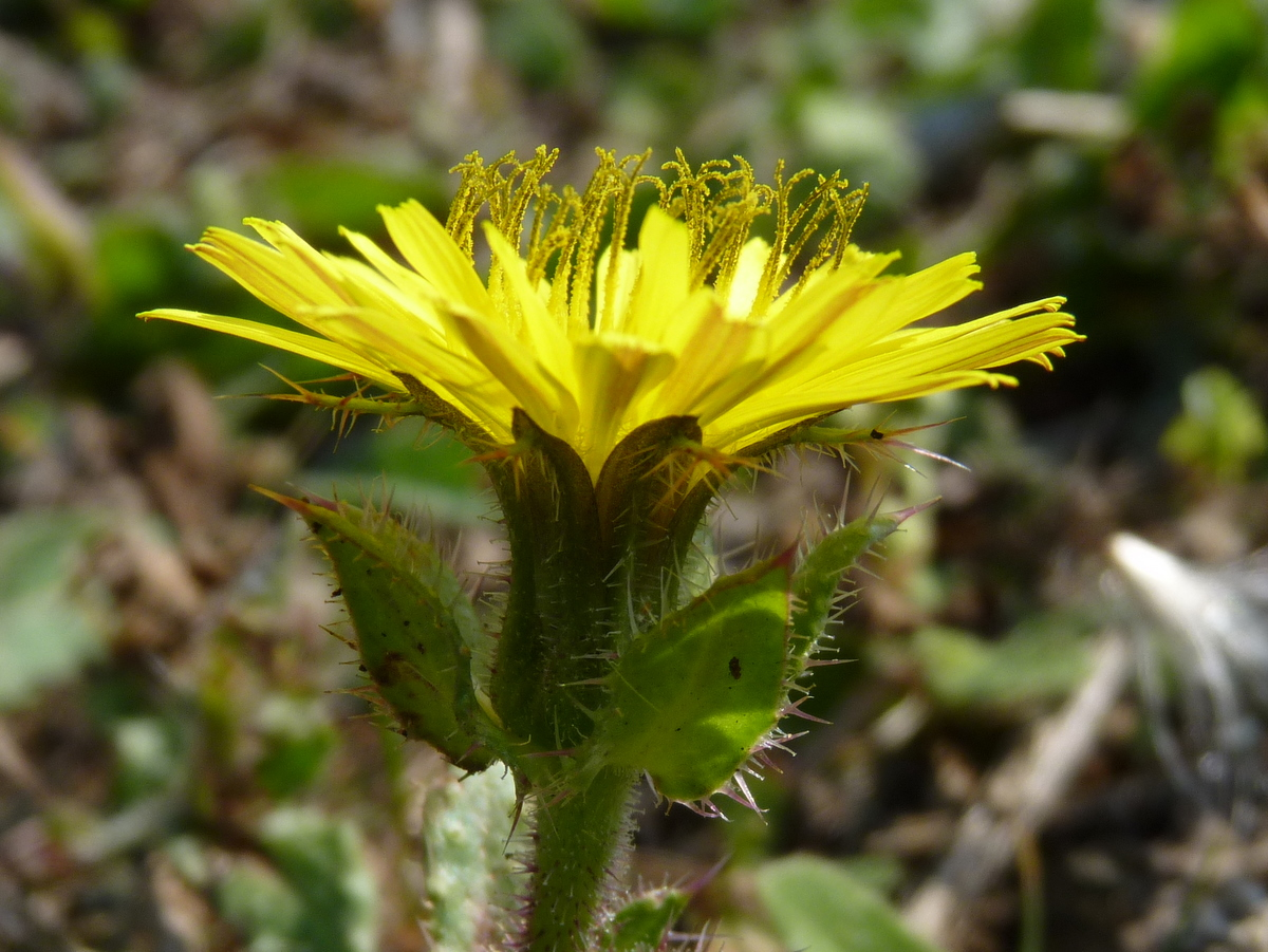 Inflorescence of Picris echioides